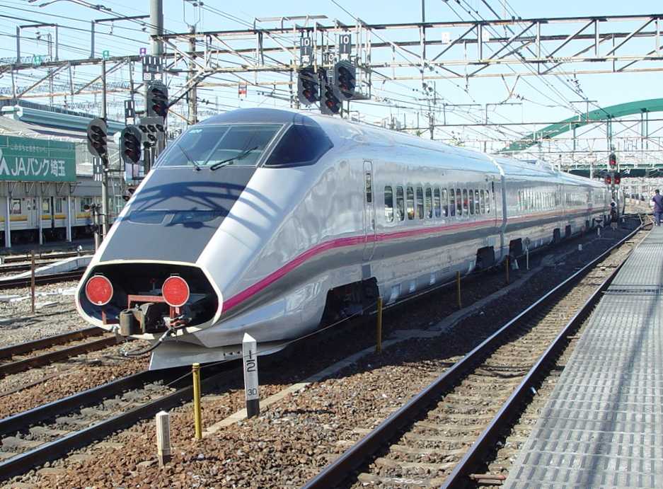 JR East E3 series shinkansen set R20 being hauled through Omiya Station on delivery from Kawasaki Heavy Industries